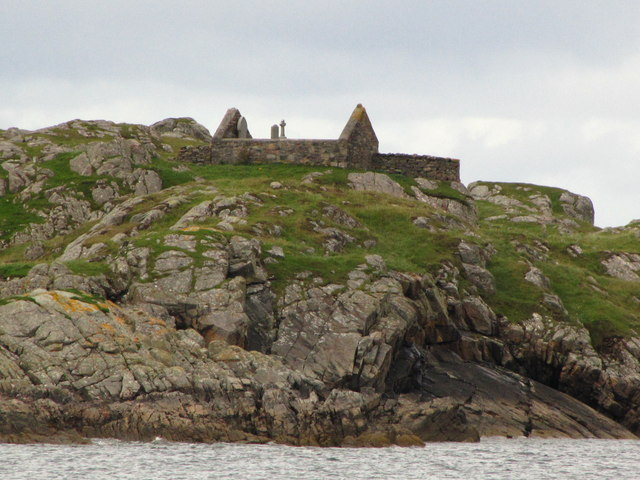 Ruin on Bearnaraigh Beag This intriguing ruin sits on the rock on the south edge of Bearnaraigh Beag but requires a boat to access it. The visible standing cross indicates a church.